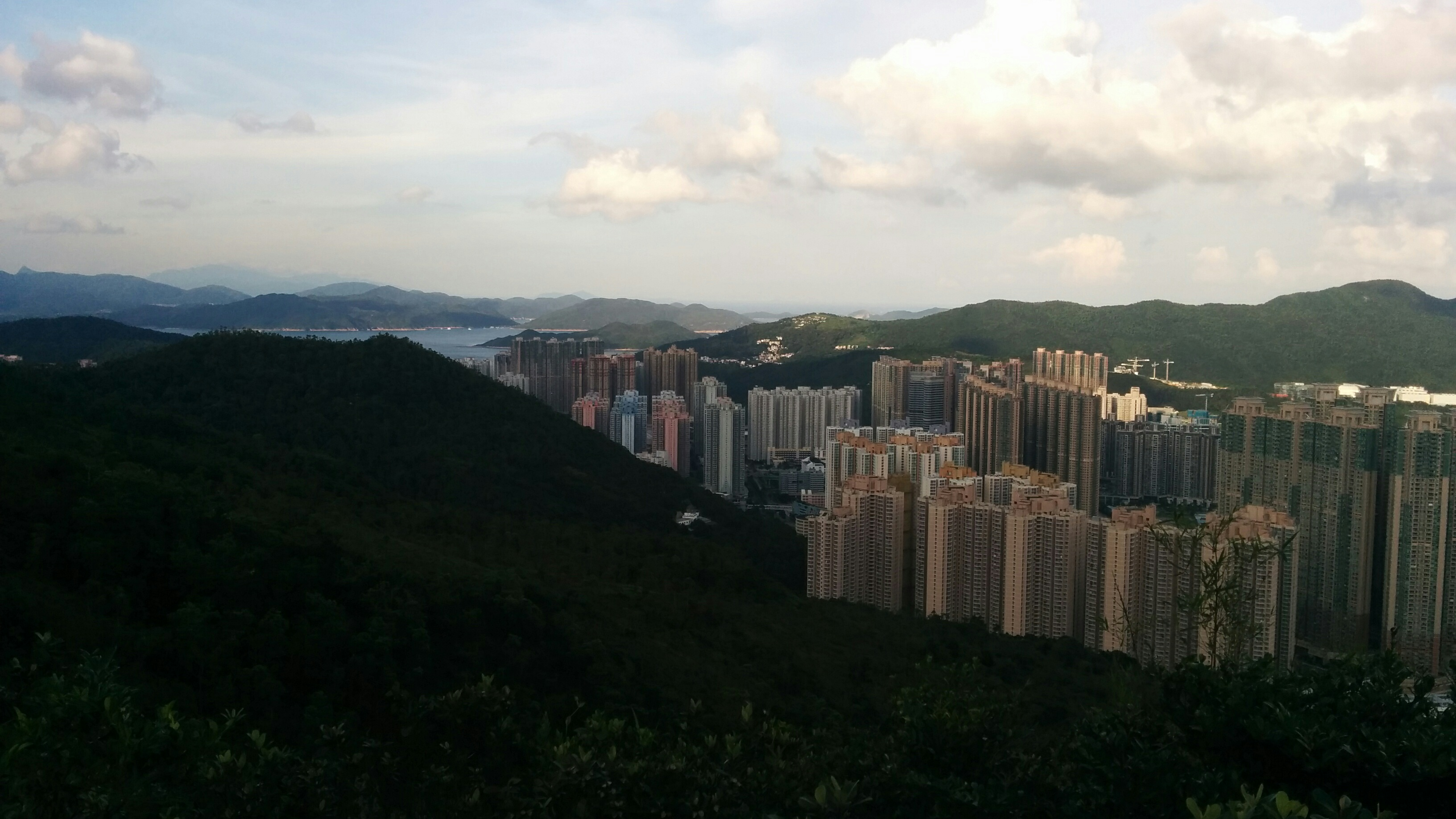 View of Tseung Kwan O and Sharp Peak, from Black Hill. Sharp Peak is on the left.